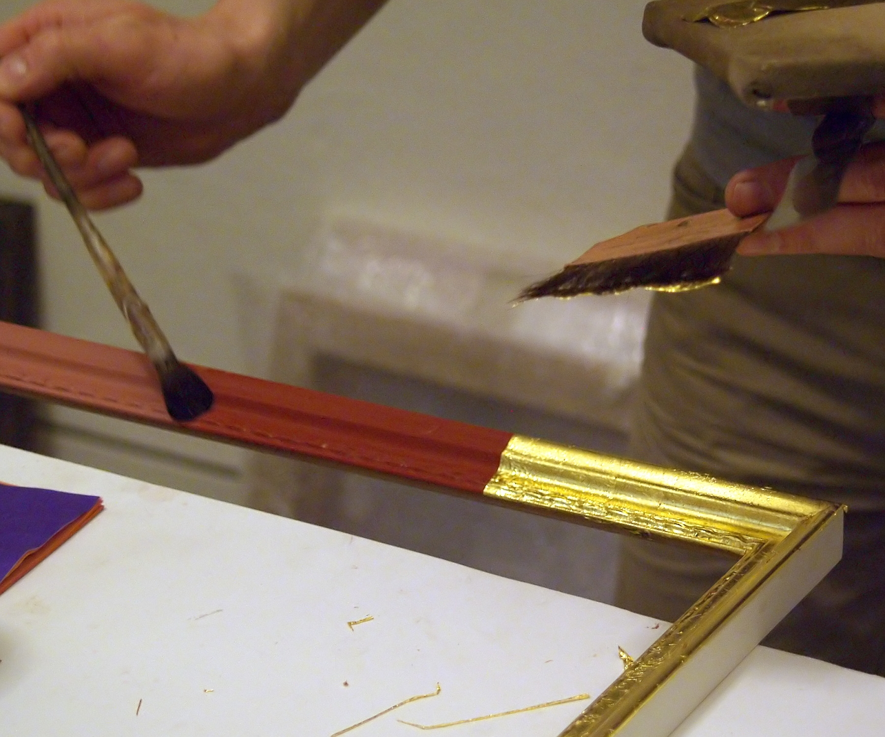 Gilder at work on a picture frame.